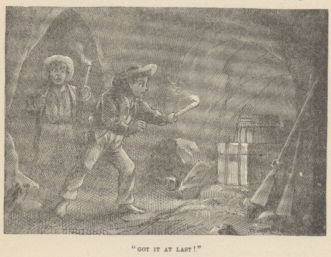 Illustrations de The Adventures of Tom Sawyer, 1876.